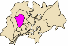 position of Tan Binh district in an outline of the core area of HCMC (Ho Chi Minh City, Vietnam) - ISO code VN-F-HC. Keywords: map, outline, city, Ho Chi Minh City, HCMC, HCM, Tan Binh district, quan Tan Binh.